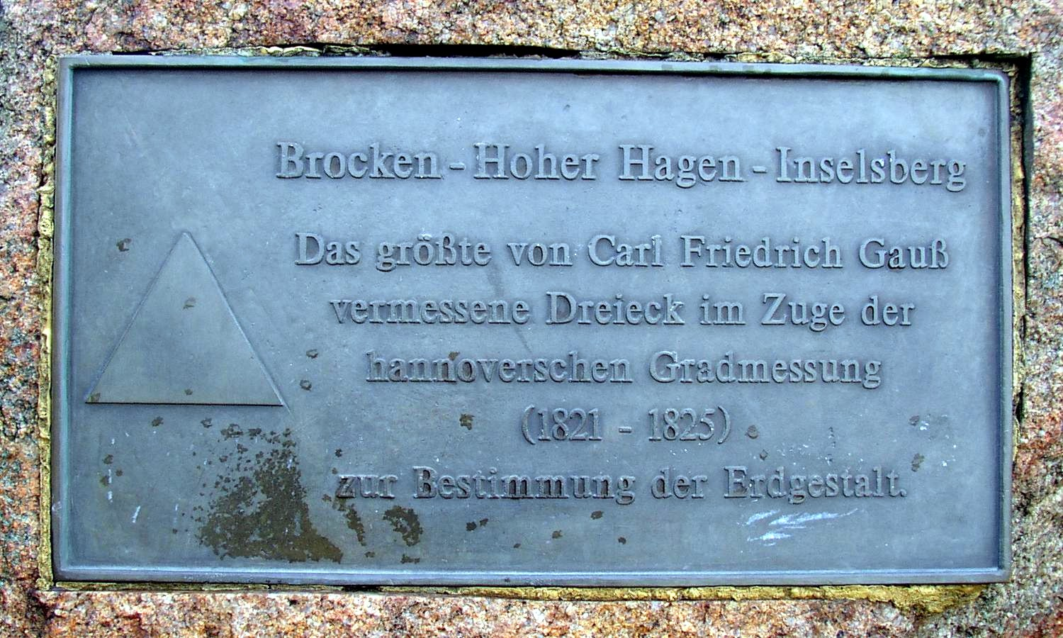 Memorial tablet on the Brocken in Saxony-Anhalt, Germany